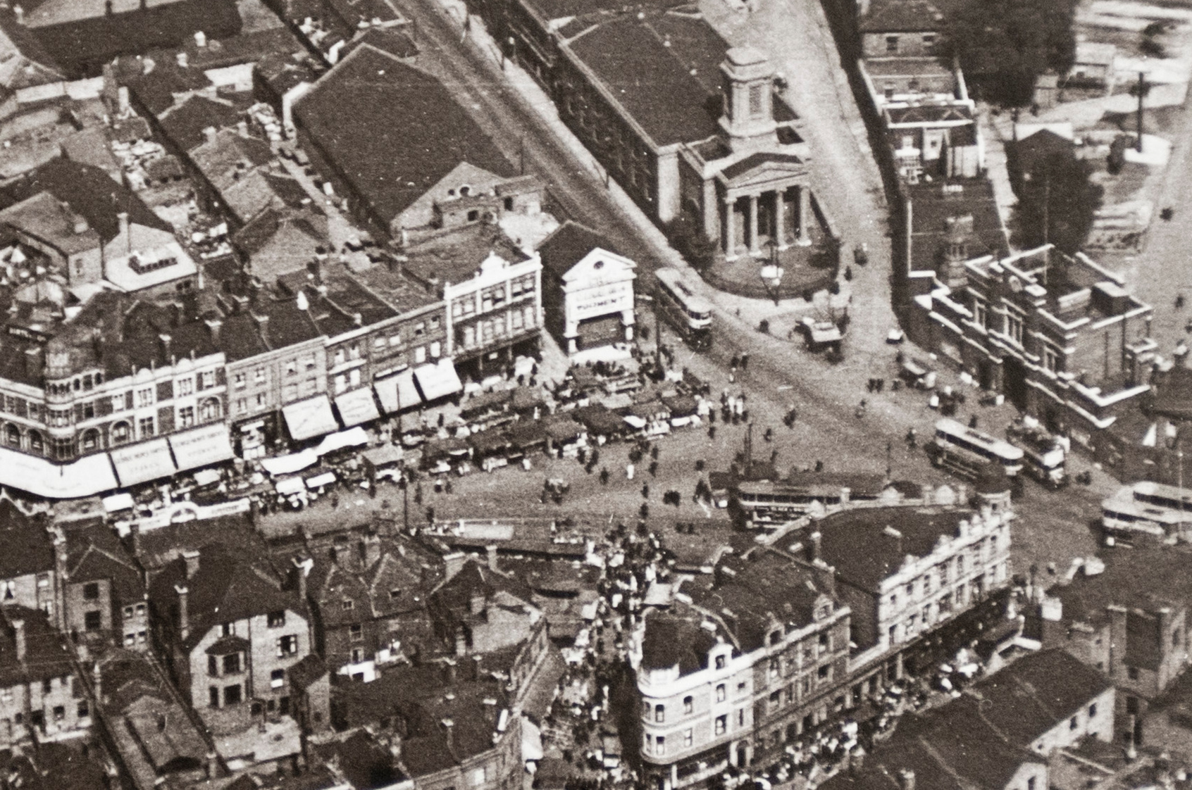 Aerial view of Beresford Square, Woolwich, southeast London, UK. Detail of an aerial photograph in the collection of Greenwich Heritage Centre, Woolwich.